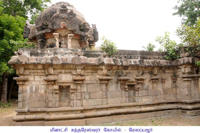 Paluvettaraiyar temple in Melapalur , Ariyalur dt